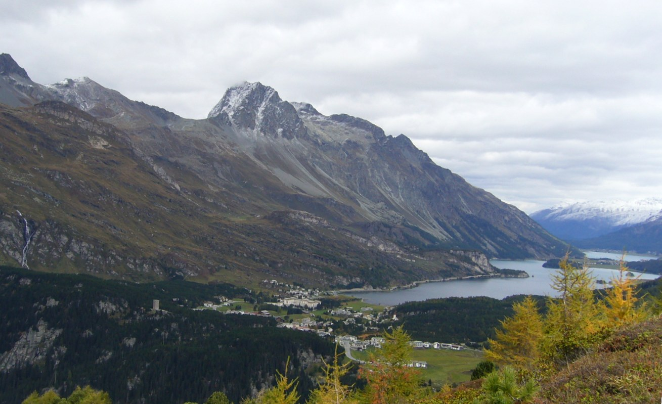 Switzerland, Maloja, View northeast towards Upper Engadin, on the left side the sources of Inn River in the Albula Range, with Piz Lagrev (3165m)